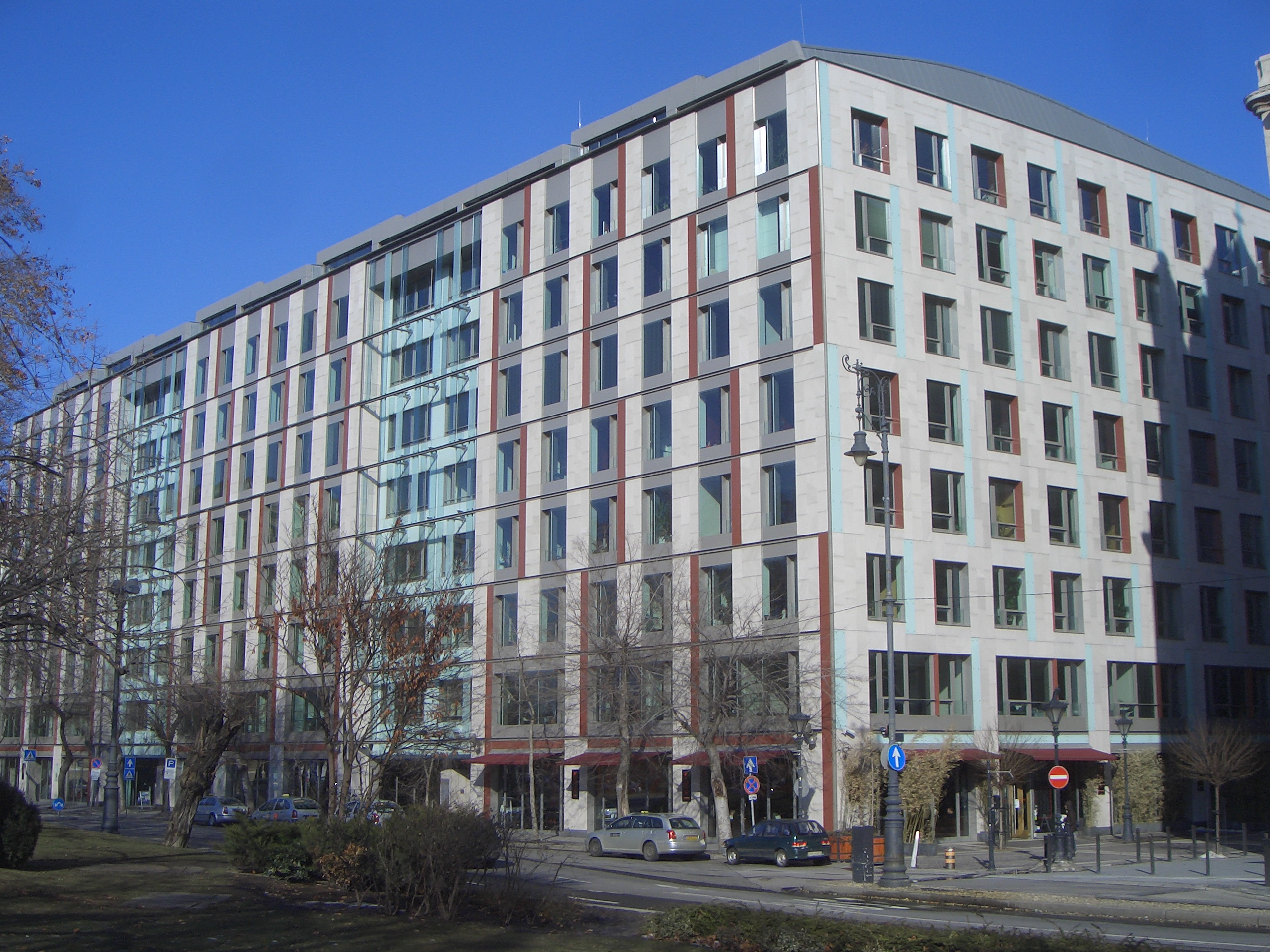 Office Building in Budapest District V, on Széchenye Square (former F.D.Roosevelt Square), the so-called «Spenótház» (~Spinach-House). Present state, after a reconstruction in 2002-2006).